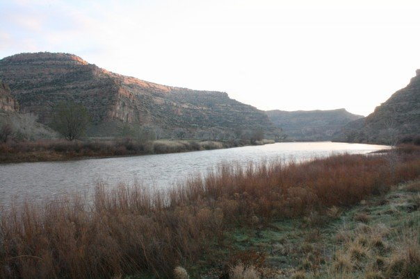 This was taken in the Island Aceres Part of James M. Robb Colorado River State park. This photo was taken by Daniel Smith and is released into Public domain